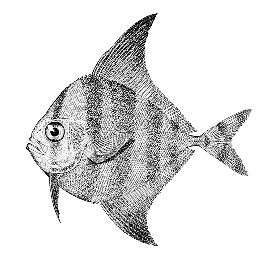 Parastromateus niger